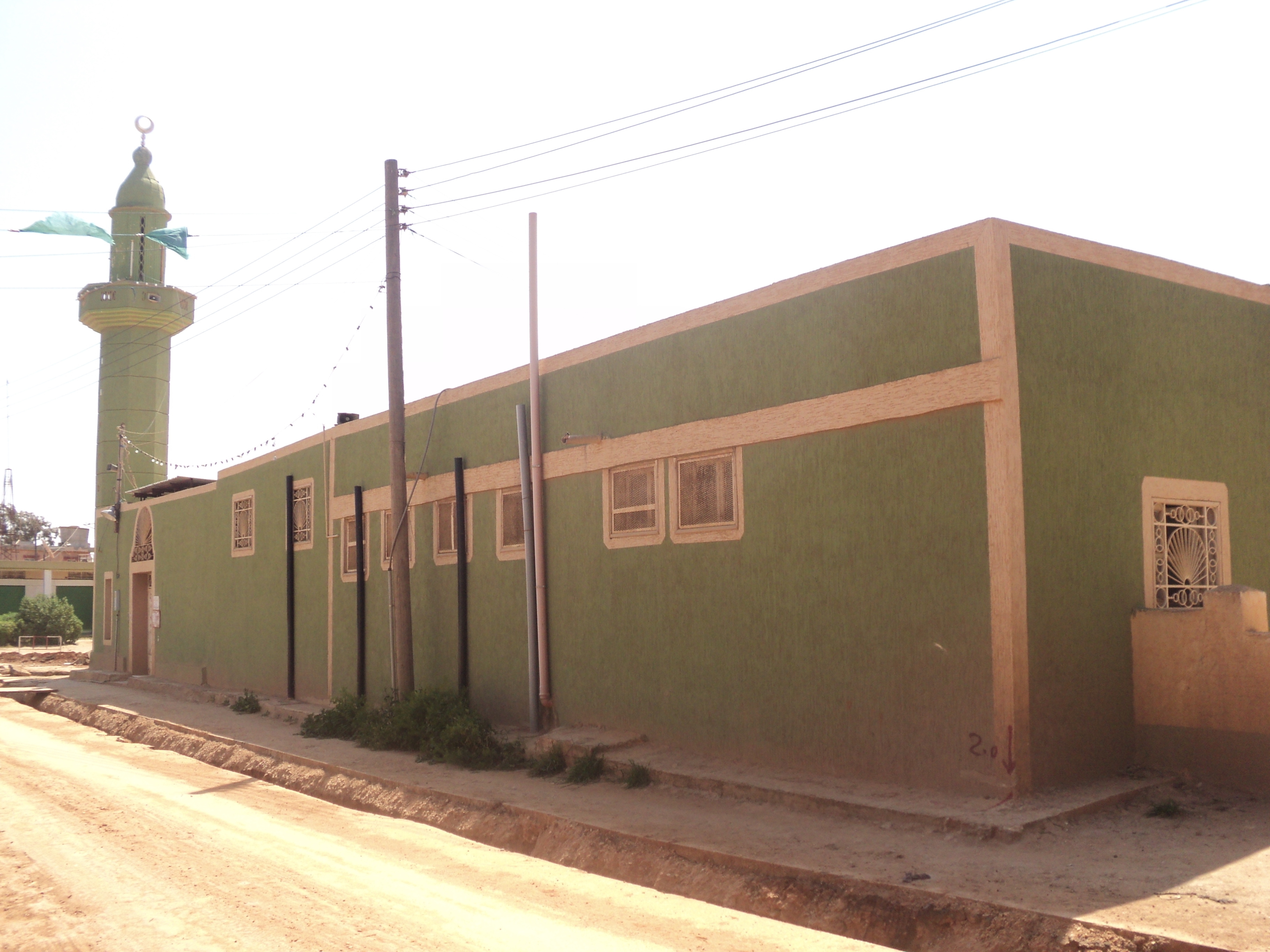 Talha ibn Ubaid Allah mosque, Benghazi.